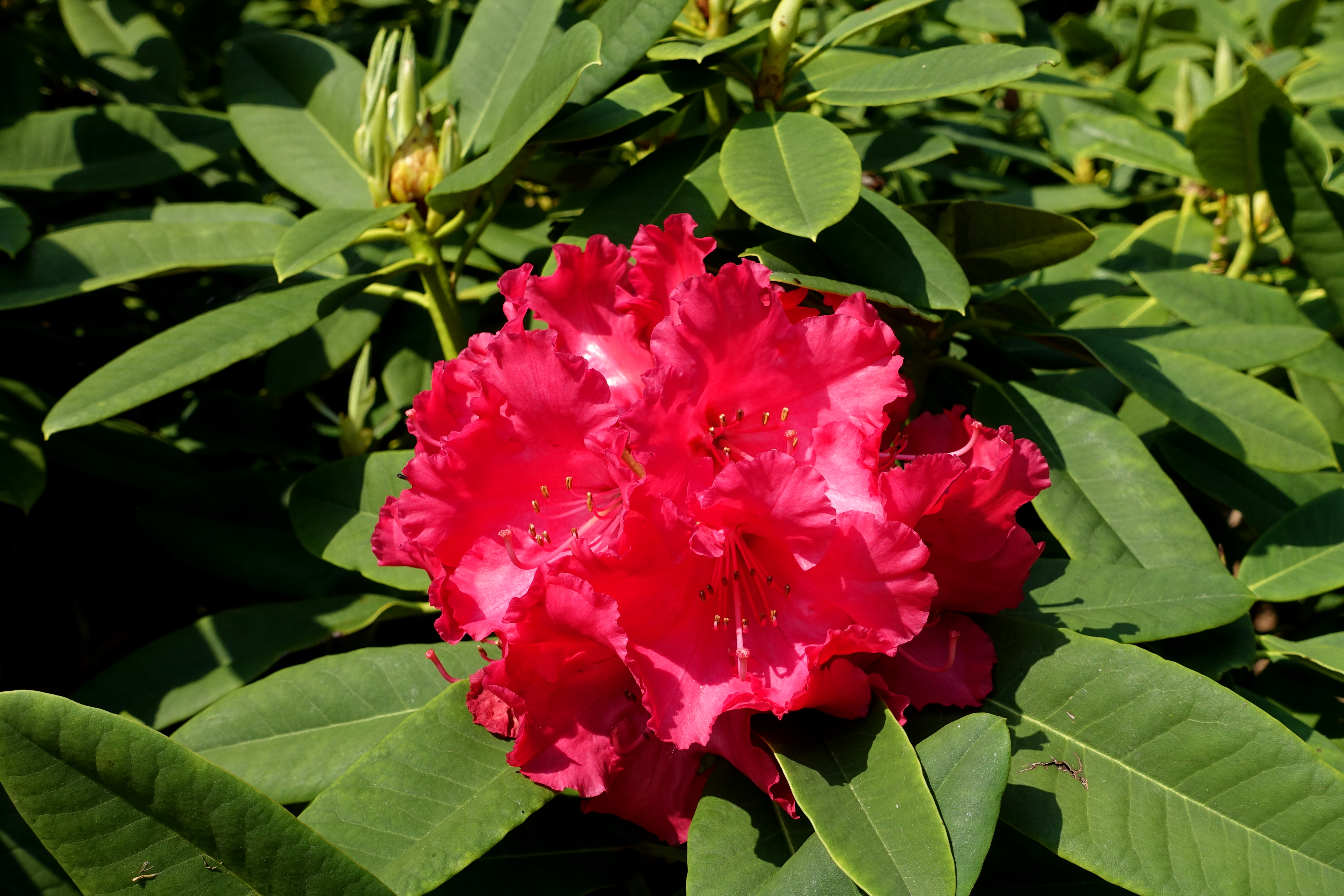 Horticultural specimen in Sheffield Park and Garden - East Sussex, England.